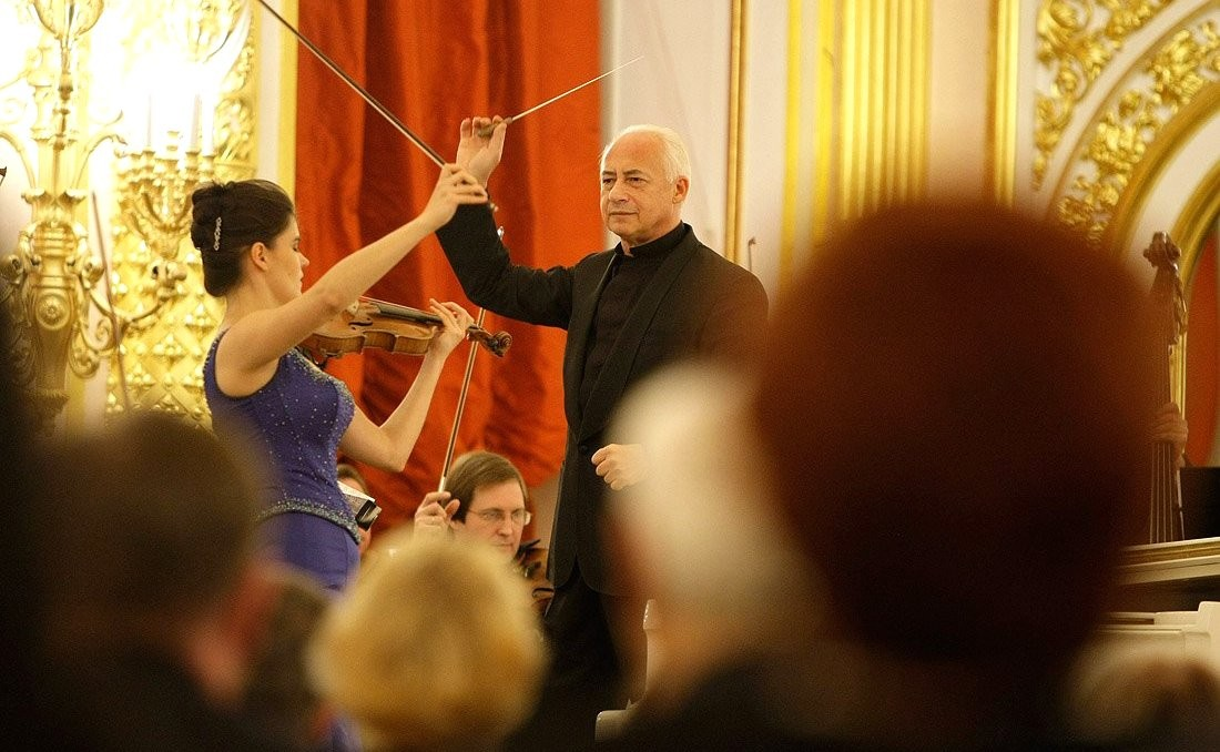 Vladimir Teodorovich Spivakov is a leading Russian conductor and violinist best known for his work with the Moscow Virtuosi chamber orchestra